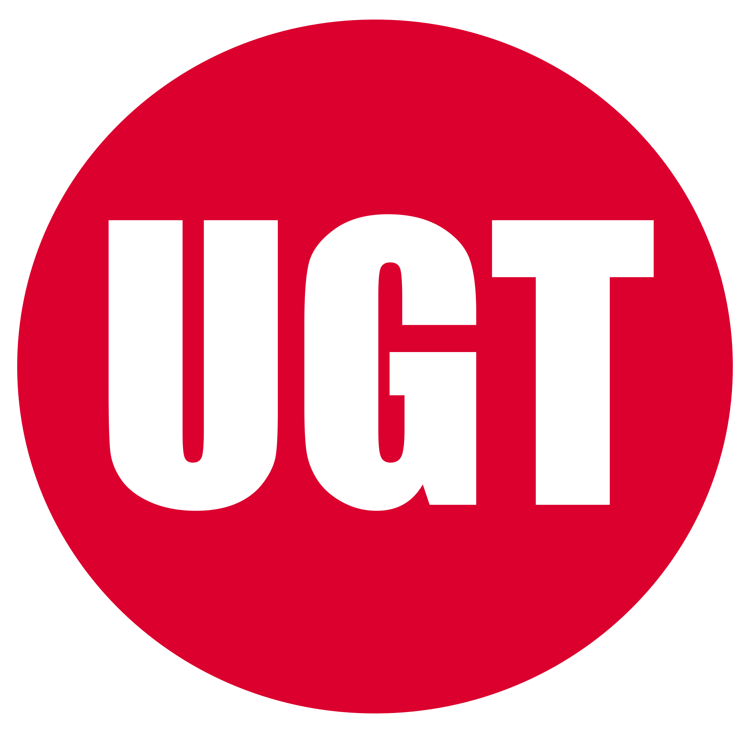 Logo of UGT, a Spanish trade union.